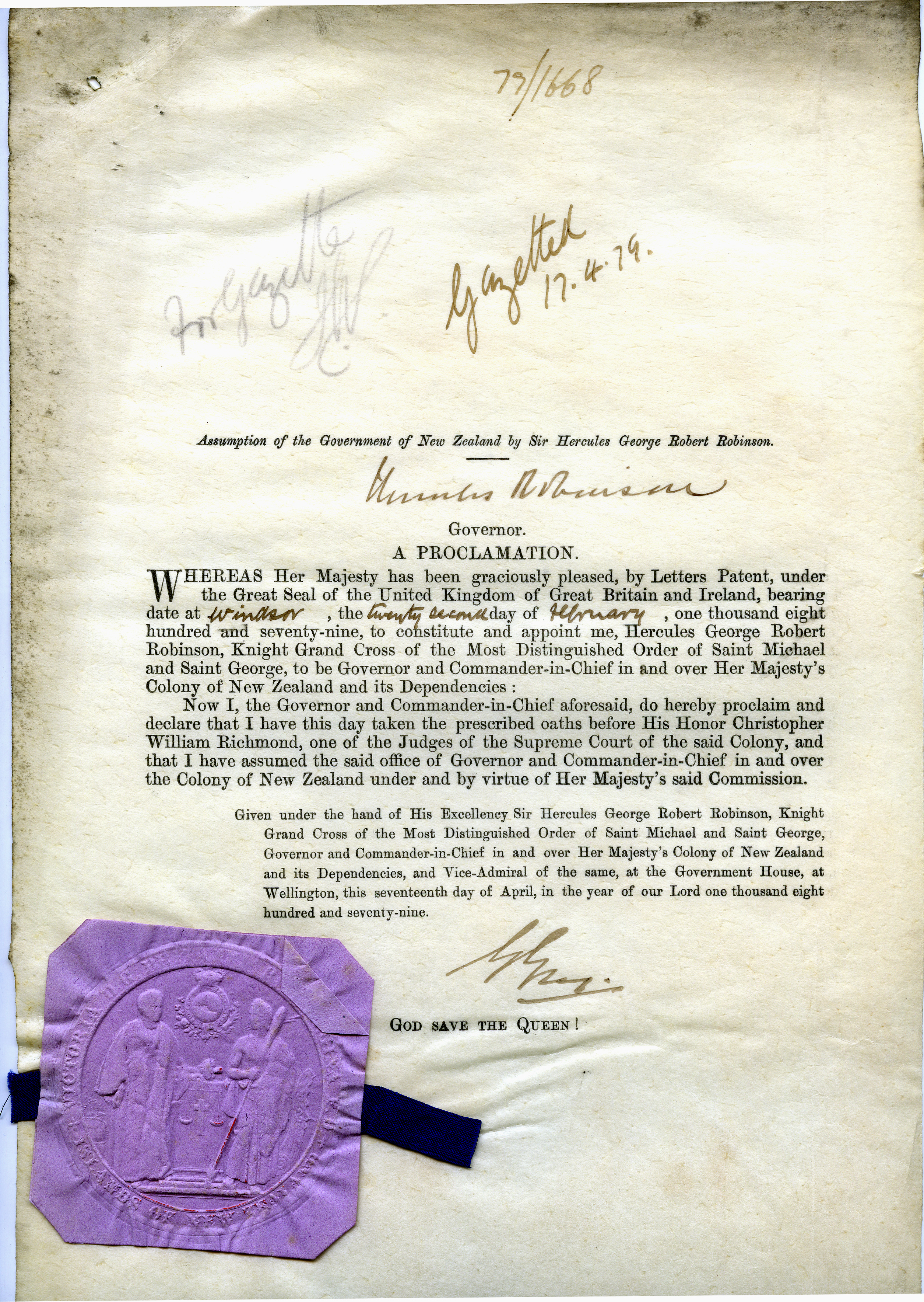 Sir Hercules Robinson was born on 19 December 1824, second of the six sons of Admiral Hercules Robinson of Rosmead, Westmeath, Ireland. He had a long career in colonial administration before arriving in New Zealand to take office as Governor on April 17 1879.